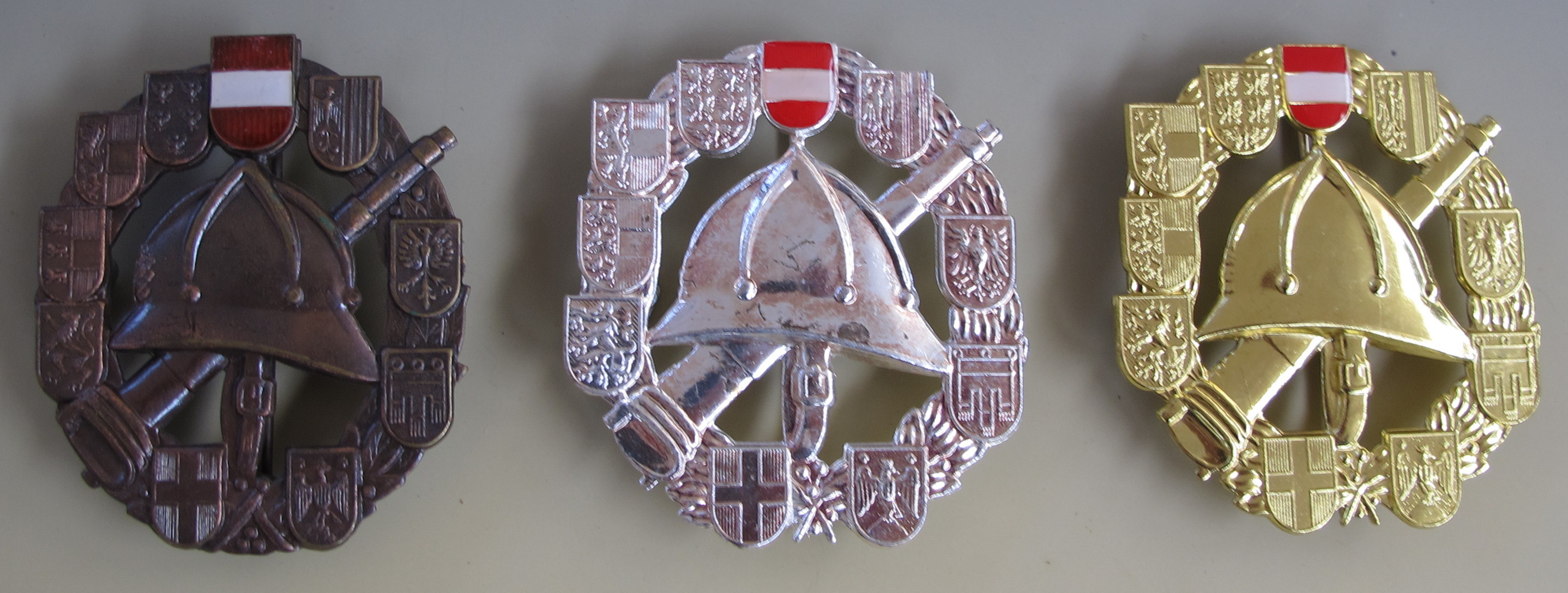 Austrian firefighters insignia